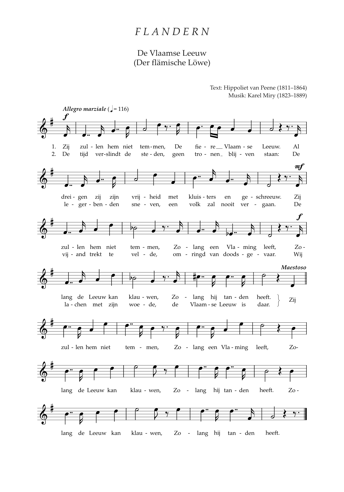 National anthem of Flanders